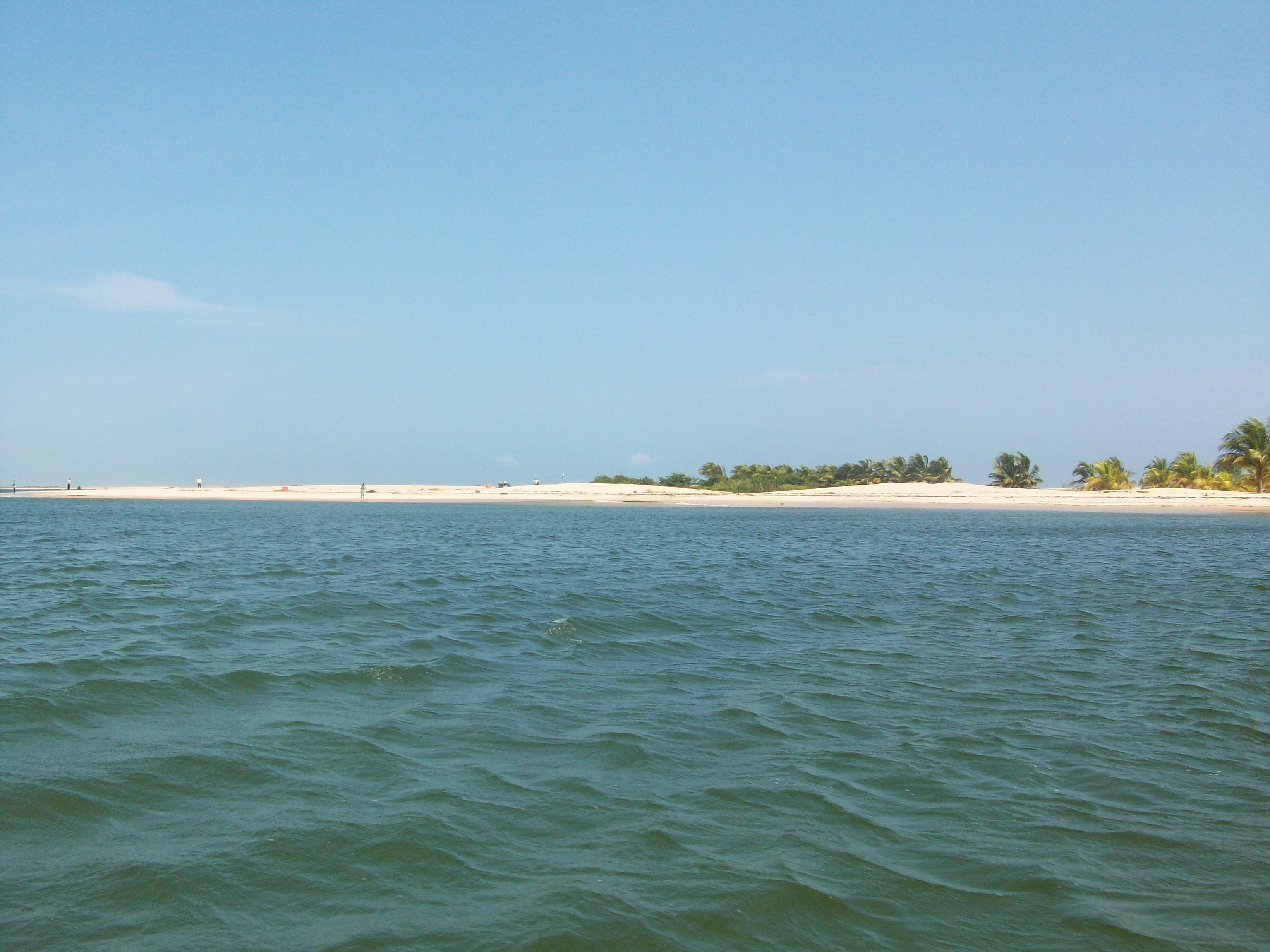 The Volta River Estuary in the southeast of Ghana - where the waters of the Volta River and the Atlantic Ocean meet.